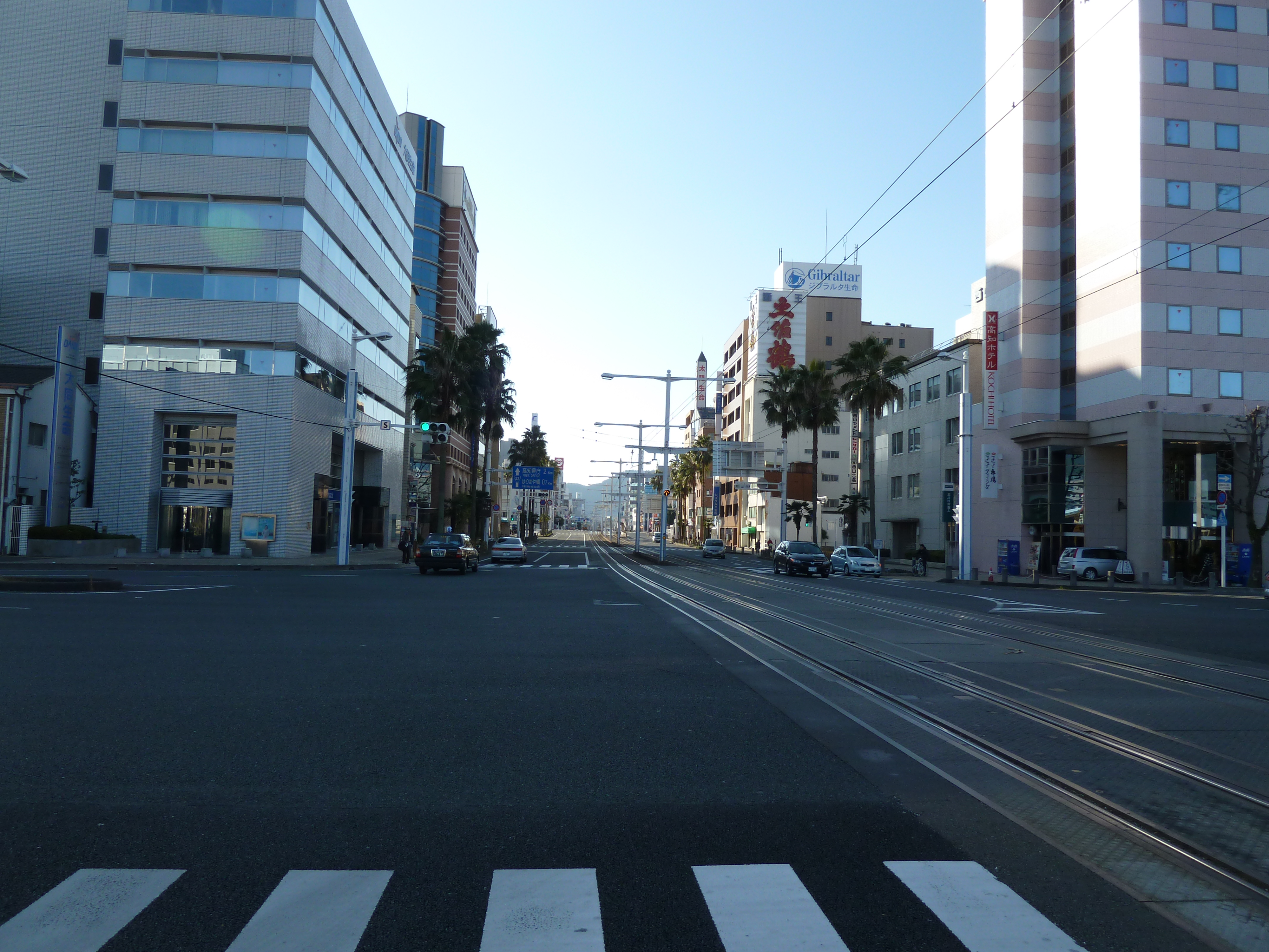 南口の駅前通り